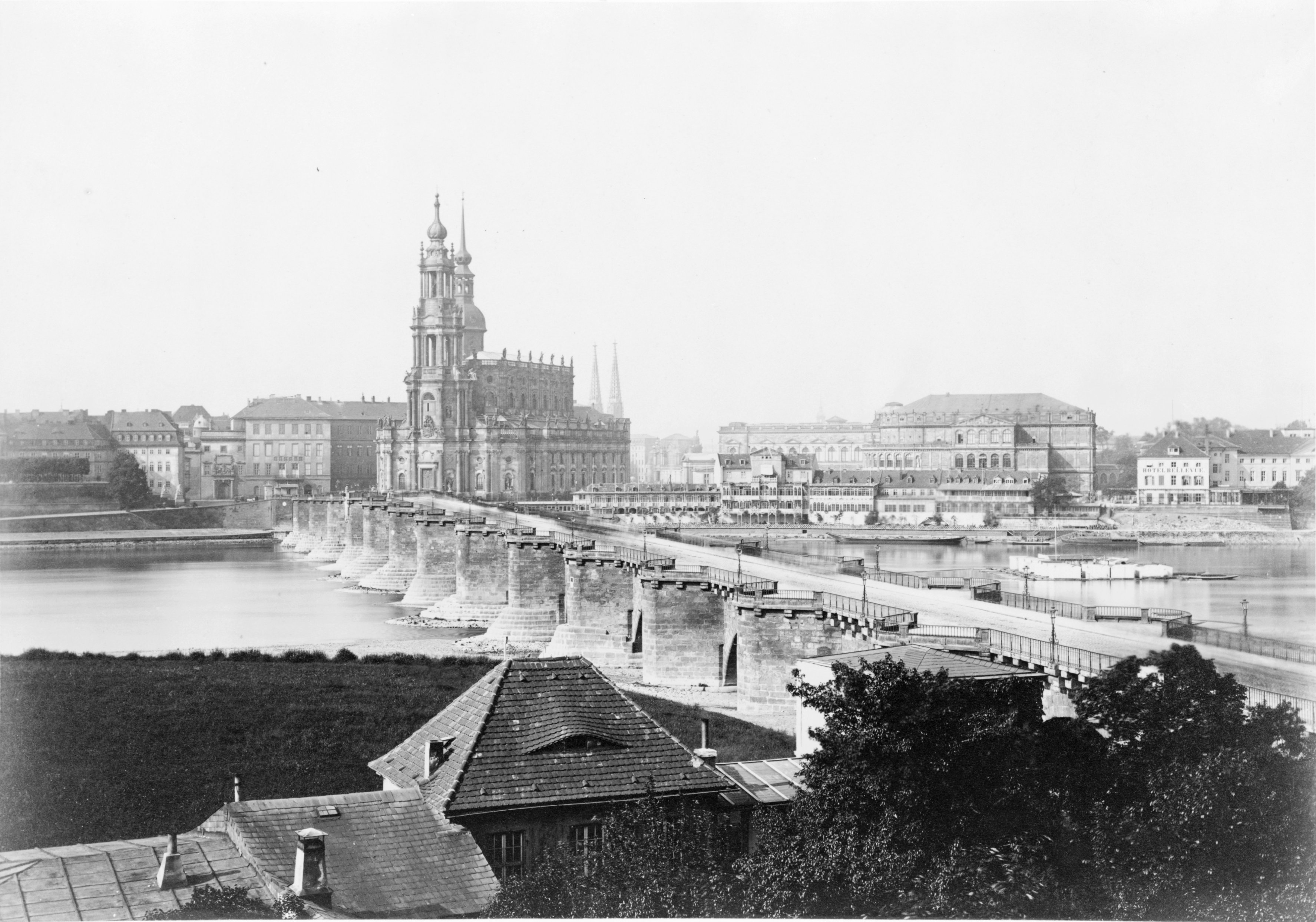 Dresden (Saxony, Germany) - Augustusbrücke